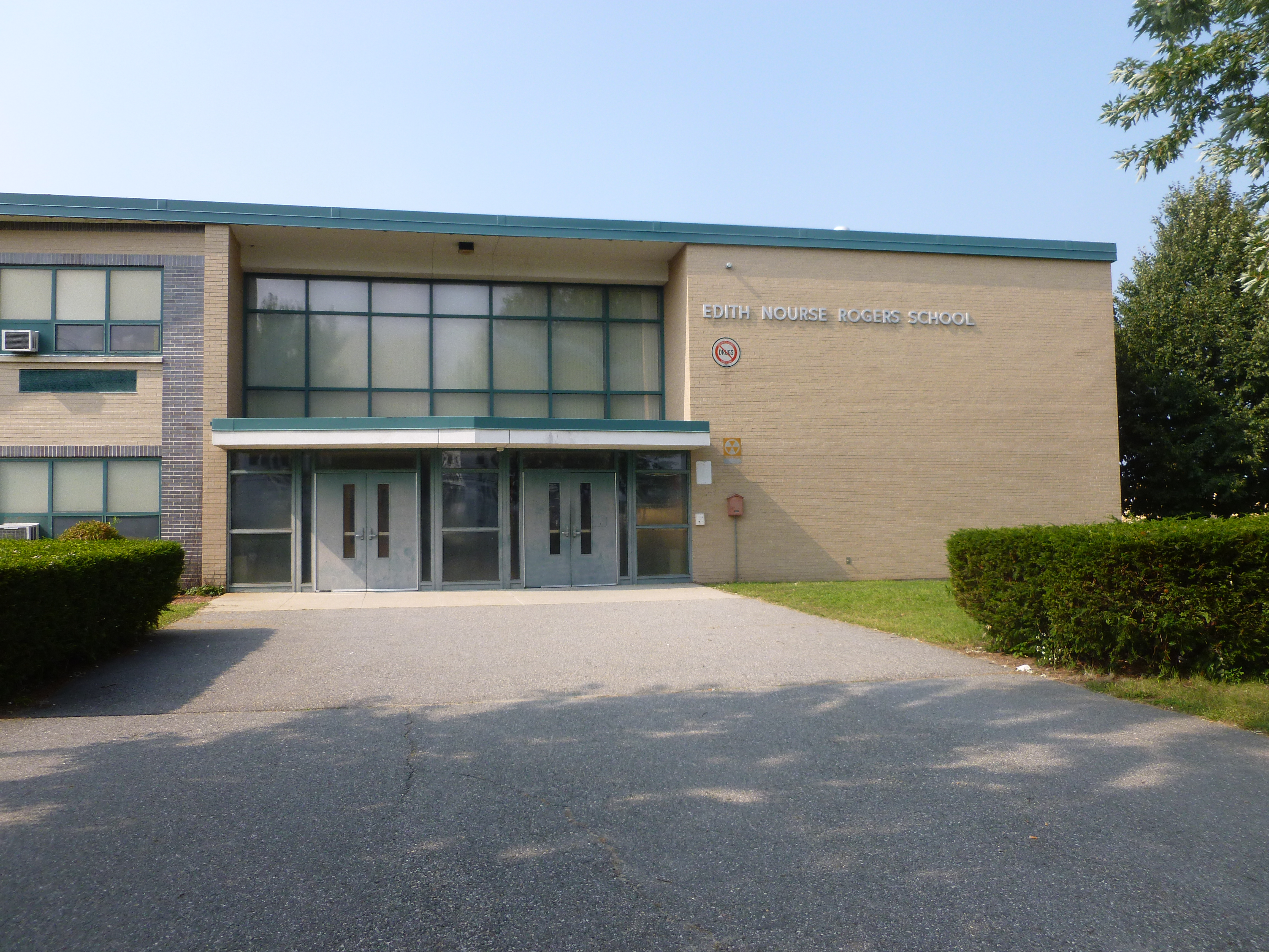 The main entrance of the Edith Nourse Rogers School. Located at 43 Highland Street, Lowell, Massachusetts.